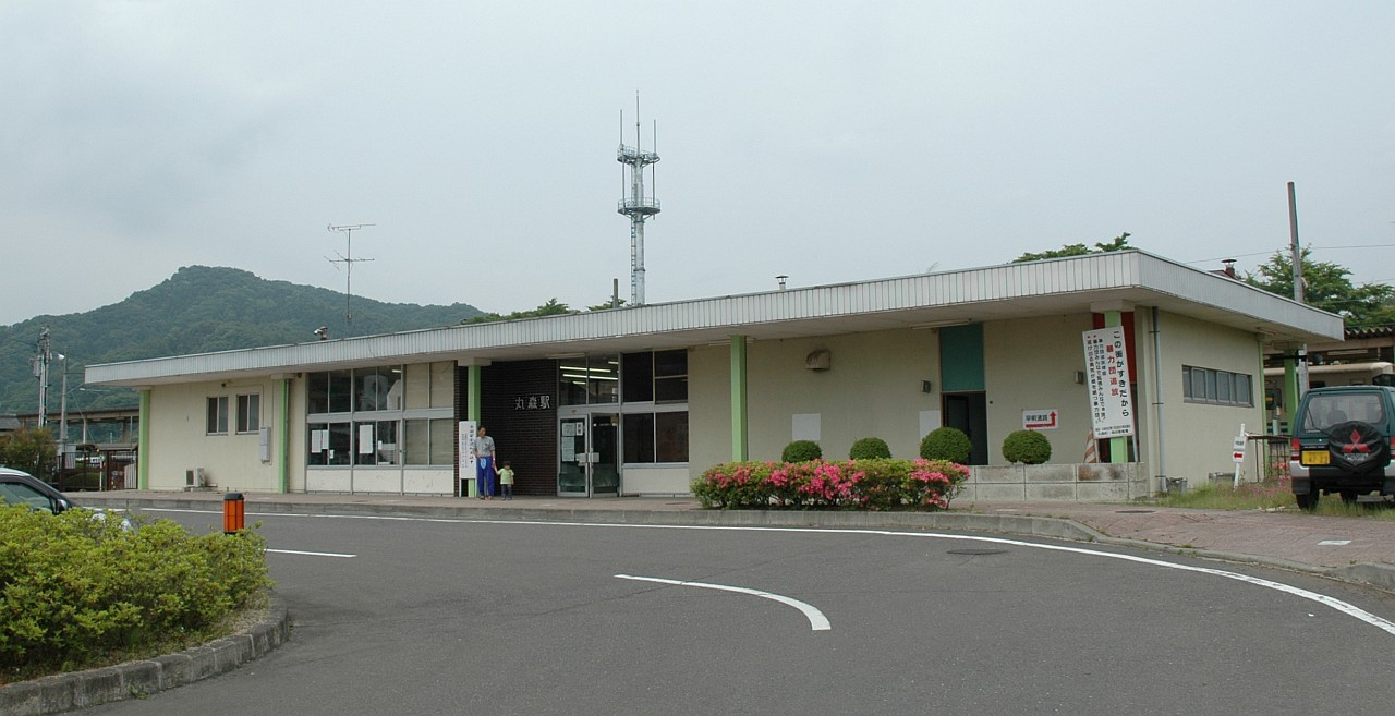 Photograph of Marumori Station, Abukuma Express Line, Miyagi, Japan.